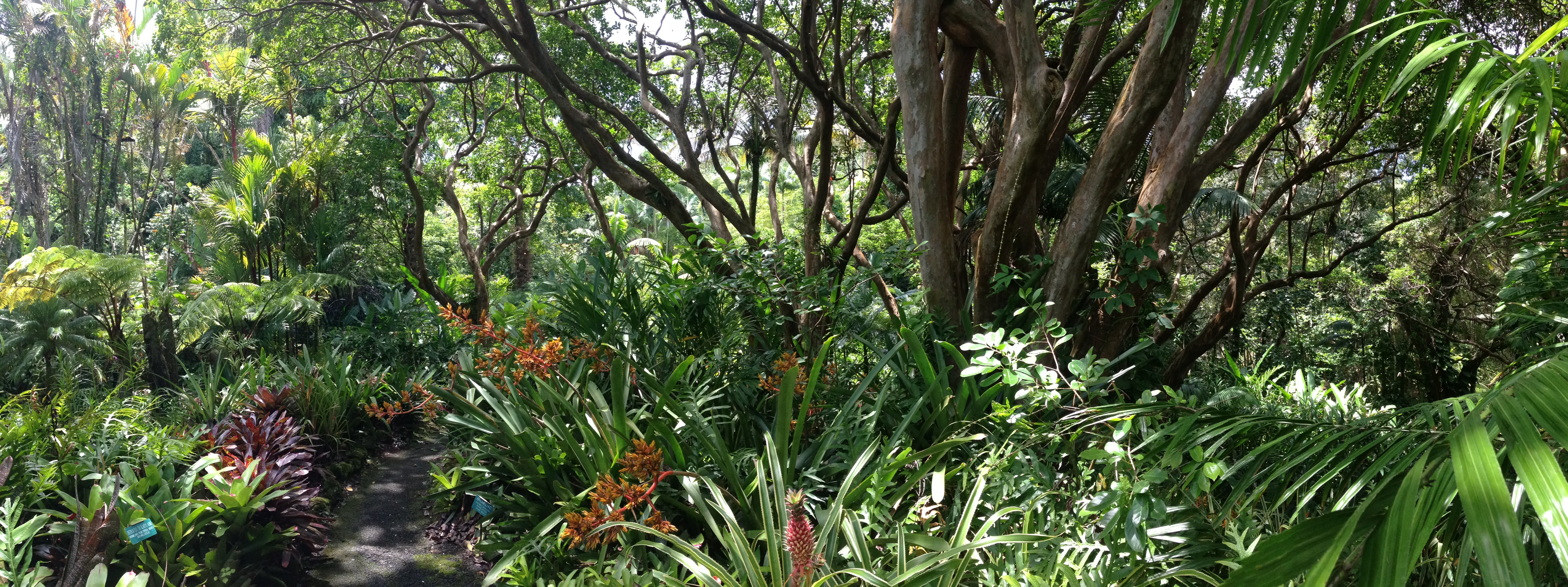 Typical scene at the Tropical Botanical Gardens